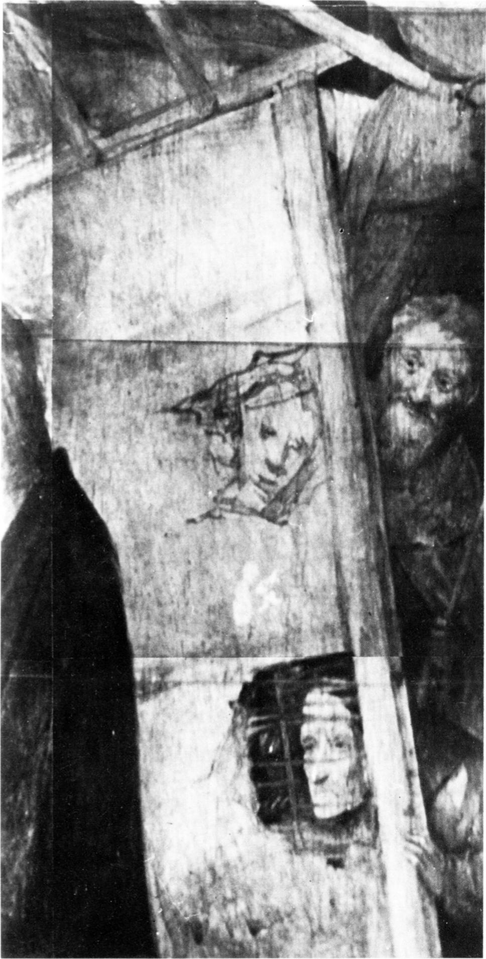 Adoration of the Magi [central panel, detail, infra-red photograph by the Technical Documentation Centre of the Museo del Prado].